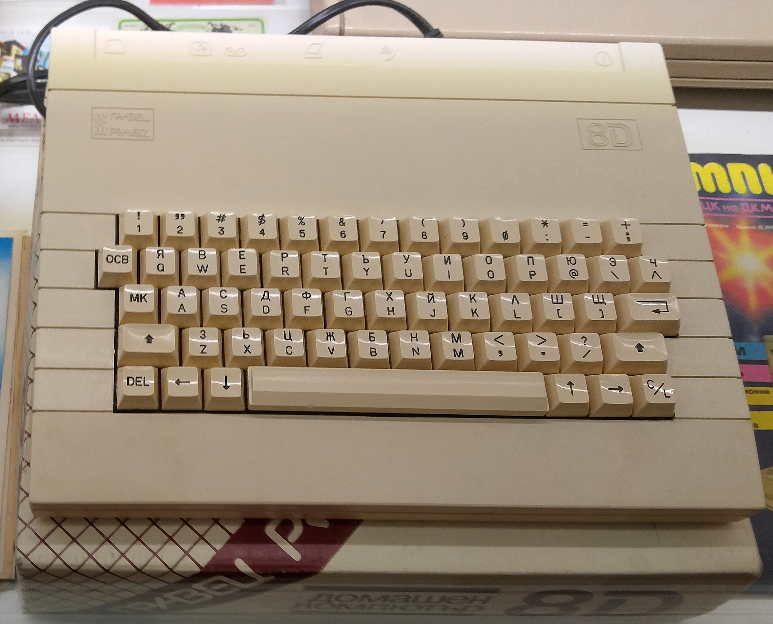 Pravetz 8D at Retro museum Varna